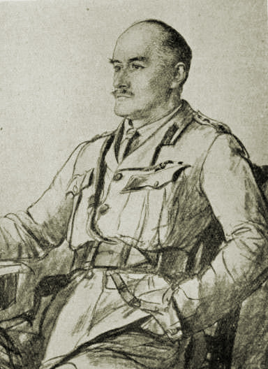 WWI Photograph General Allenby